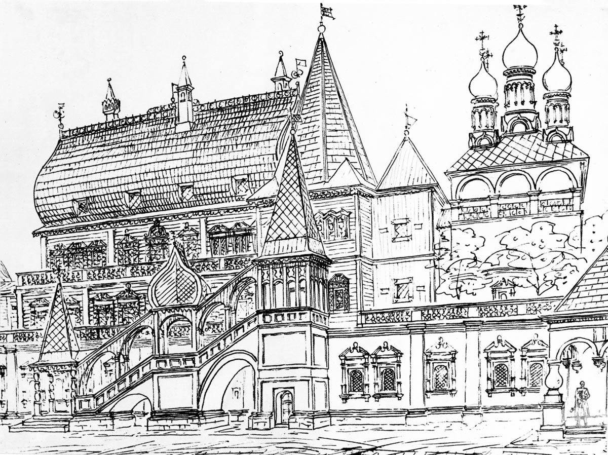 Палаты Натальи Кирилловны Нарышкиной в Кремле в XVII веке (по материалам А. Векслера, С. Кравченко и И. Ильенко)